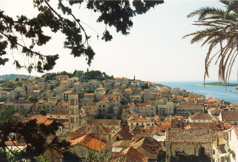 View of the city of Hvar from the castle